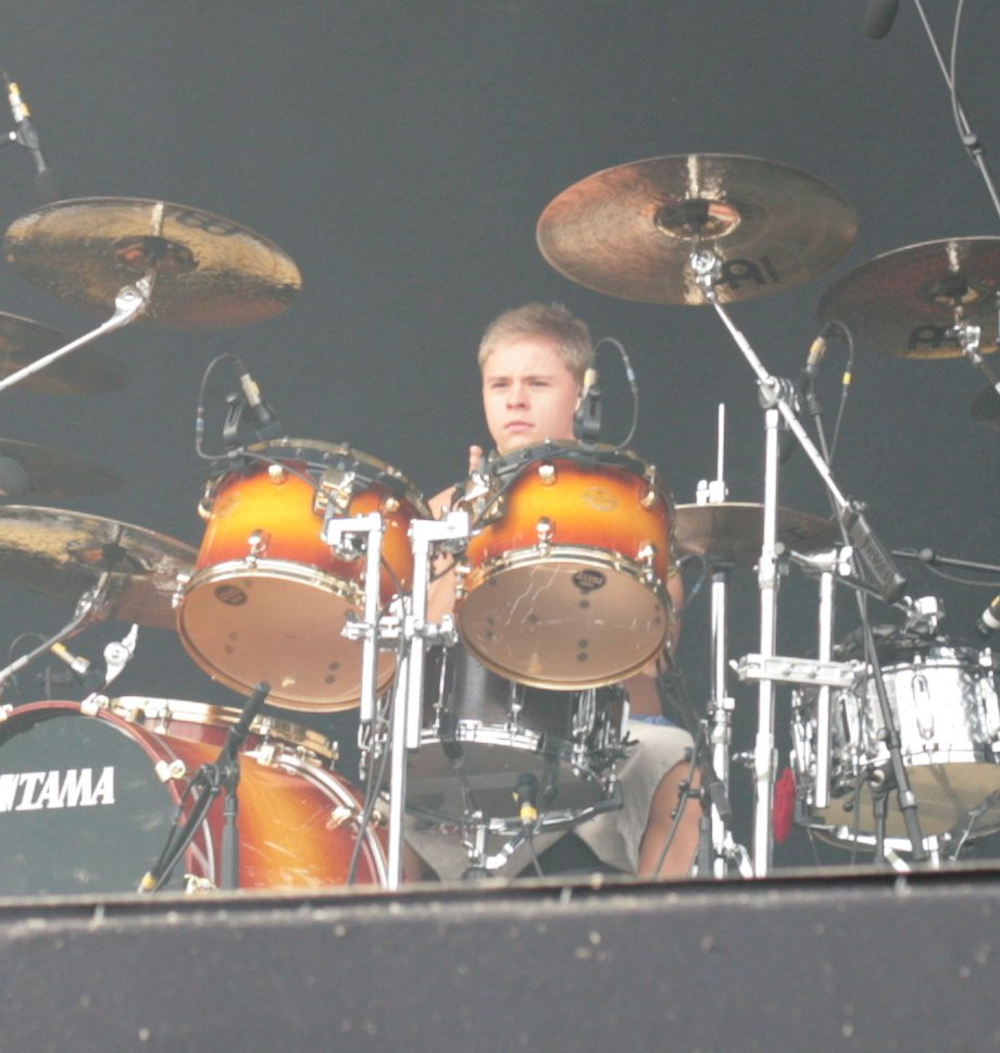 Gustav Schäfer performing at a festival in Hessisch-Lichtenau, Germany. 2006 by Pascal Parvex, (released into GFDL: info)